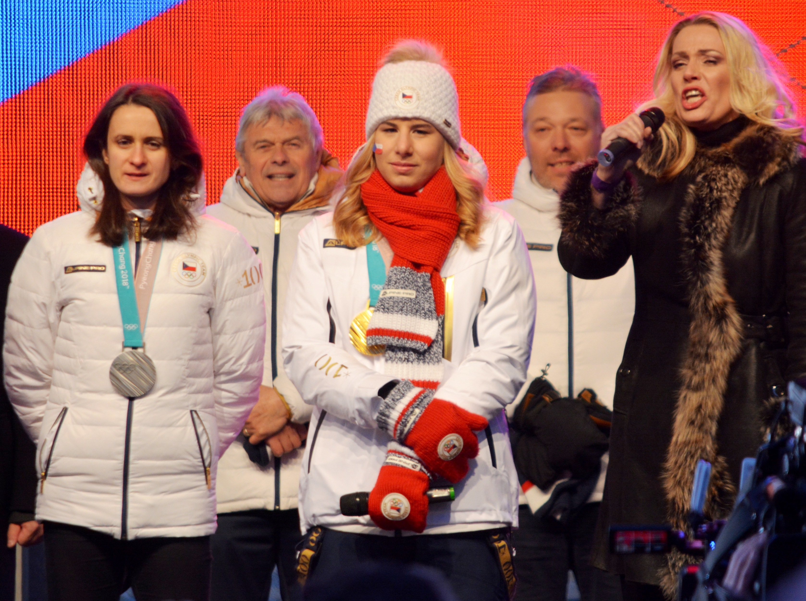 from left: Martina Sáblíková and Ester Ledecká, Czech Olympians